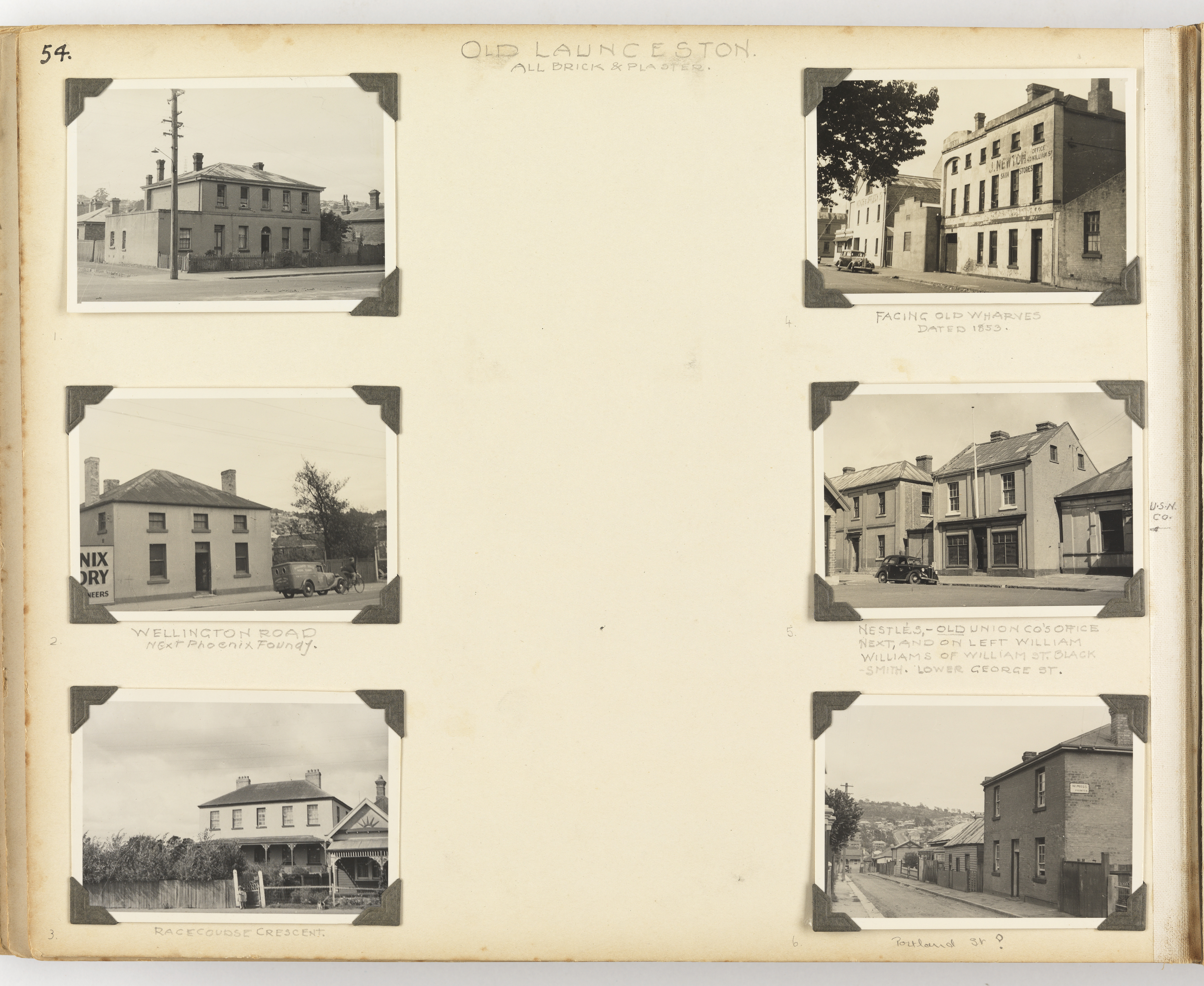 Tasmanian Archive and Heritage Office: LPIC12 (Frank Heyward Album) Images from the TAHO collection that are part of The Commons have ‘no known copyright restrictions’, which means TAHO is unaware of any current copyright restrictions on these works. This can be because the term of copyright for these works may have expired or that the copyright was held and waived by TAHO. The material may be freely used provided TAHO is acknowledged; however TAHO does not endorse any inappropriate or derogatory use.